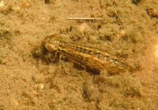 Dragonfly larva (probably Anax sp.) on lake bottom in Algonquin Park, Ontario